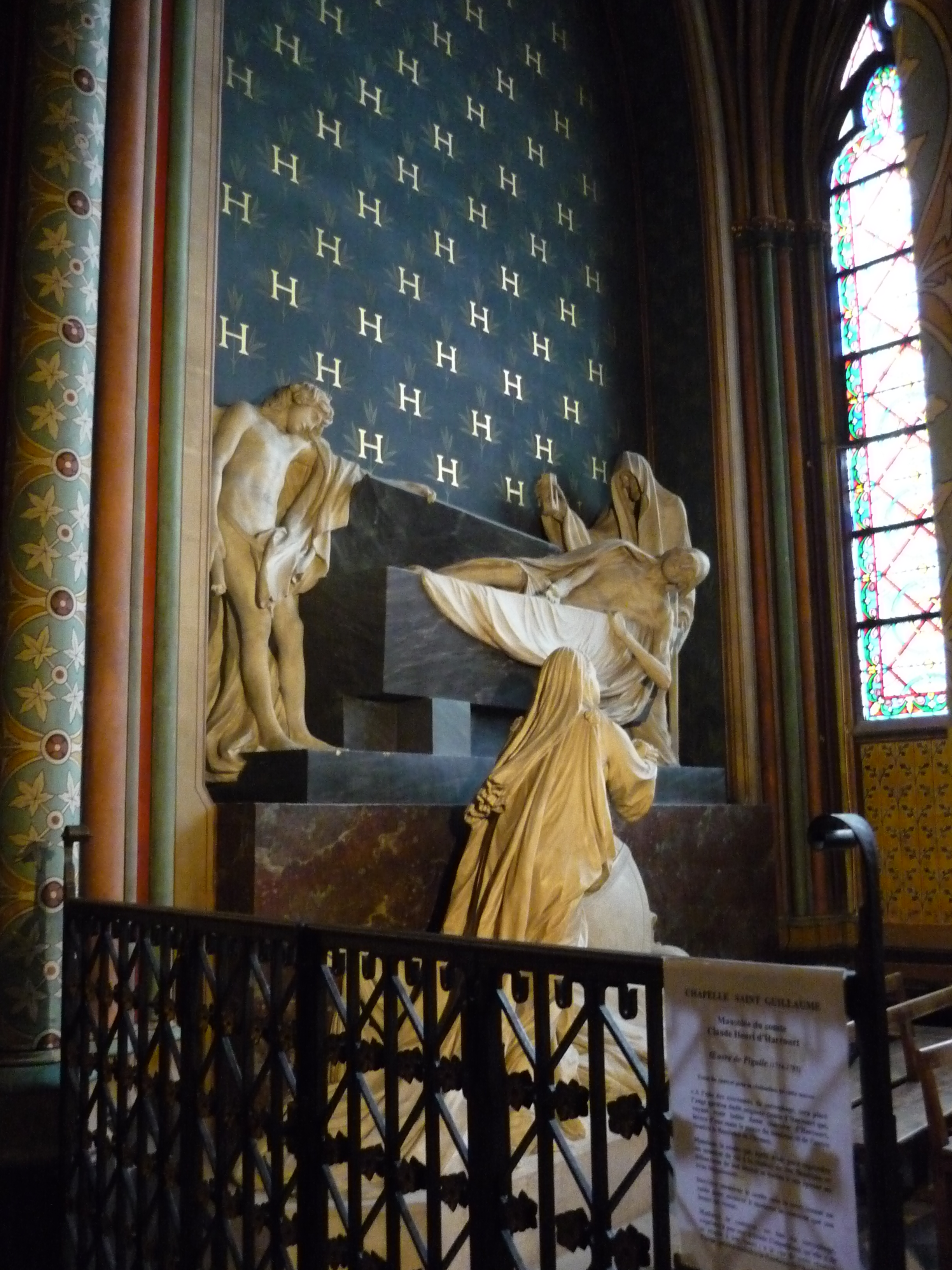 Statues, side altar in ambulatory, Cathedral Notre Dame de Paris ('Our Lady of Paris' in French)